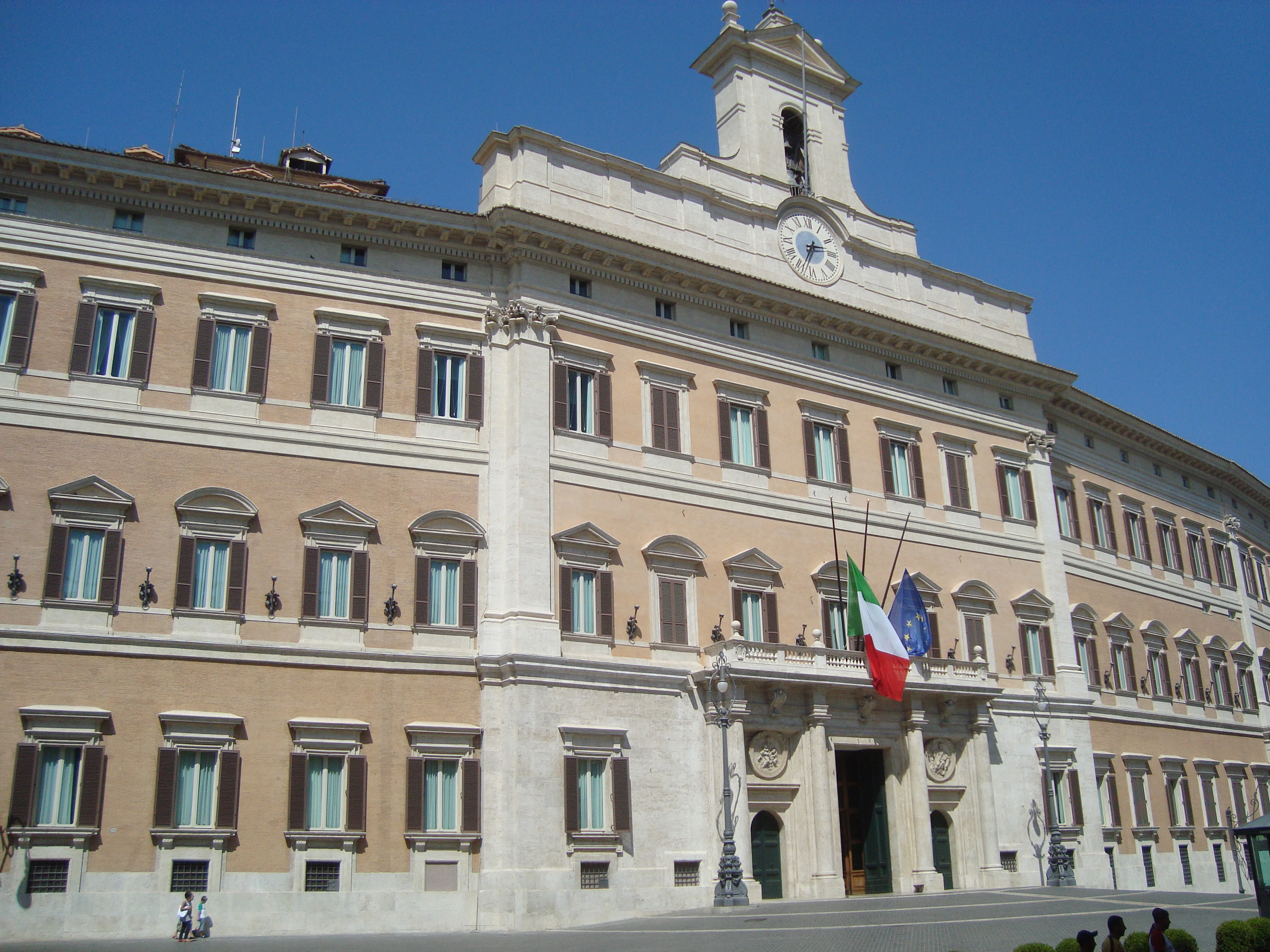 The Palazzo Montecitorio which hosts the Italian Chamber of Deputies in Rome